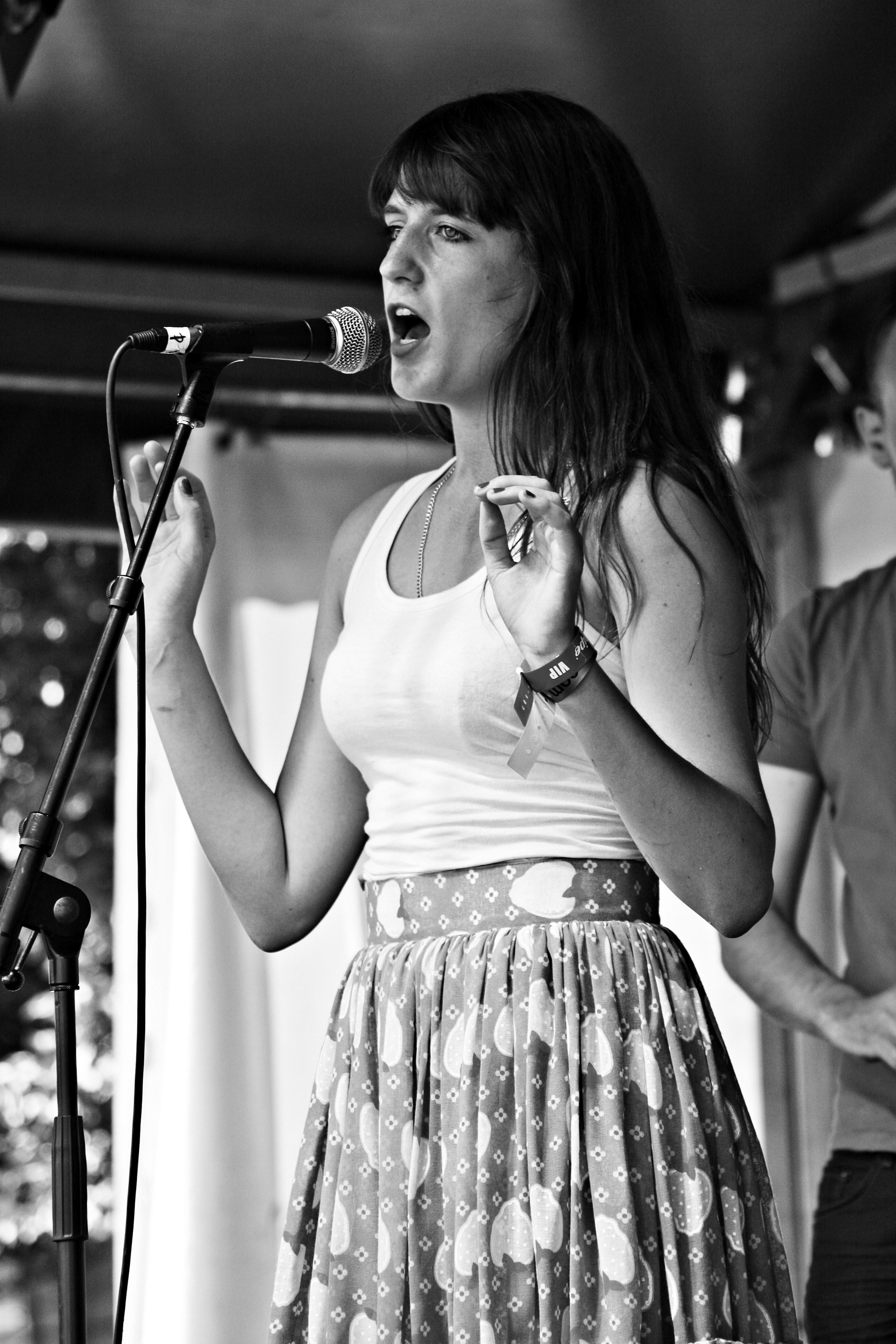 Florence and The Machine at 1-2-3-4 Shoreditch at Shoreditch Park in London, 5. August 2007